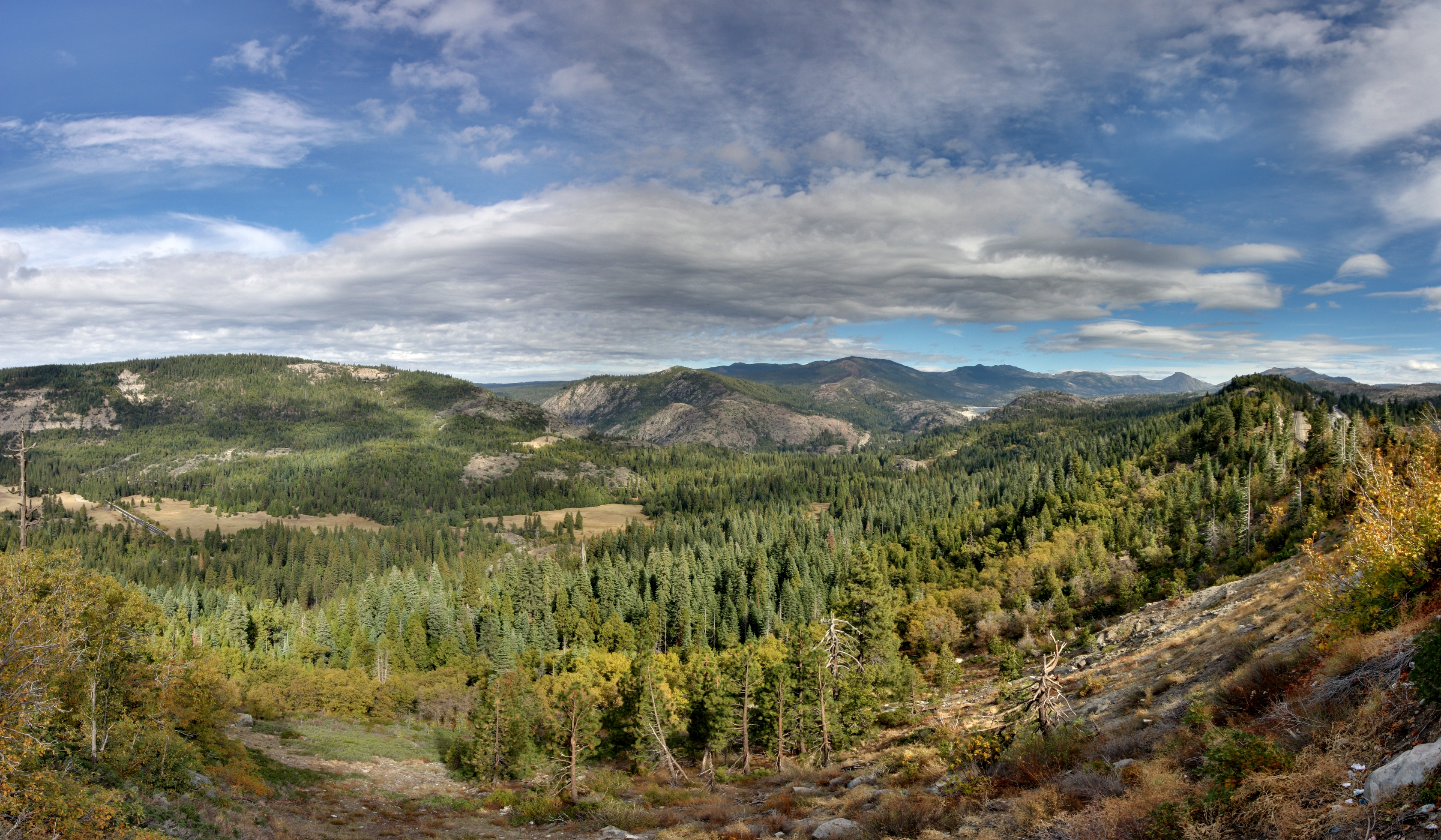 Emigrant Gap, Sierra Nevada Mountains, looking northeast toward Lake Spaulding